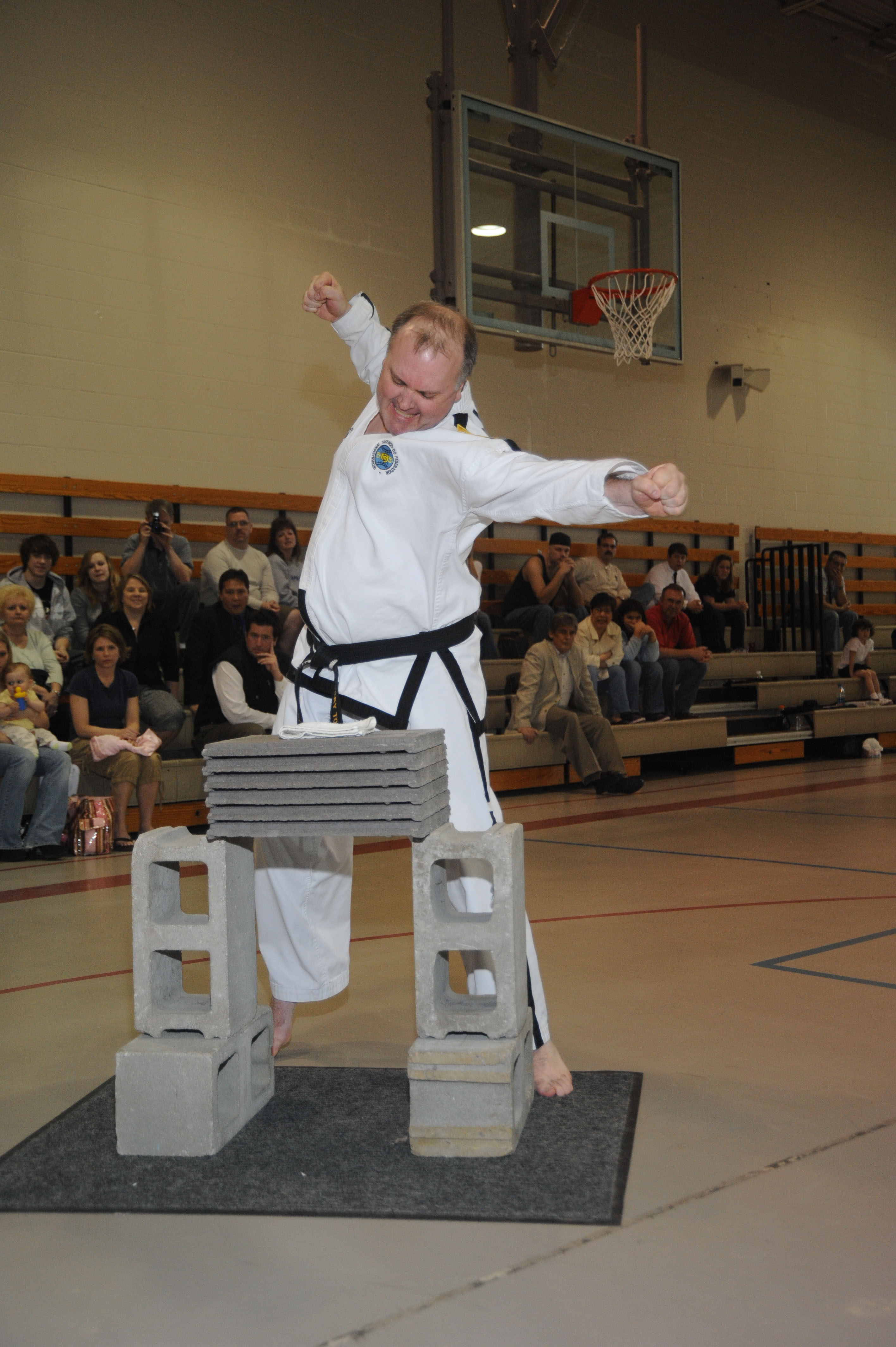 Ricky Todd, 6th degree black belt and head instructor for the U.S. TaeKwon-Do Federation's AXE TaeKwon-Do school in Bellevue, prepares to break through six cement tiles April 19 as part of the test for his 7th degree black belt master instructor status.